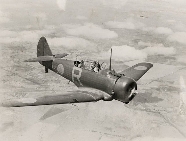 Laverton, Vic. 1940-02-09. A Wirraway aircraft of No. 21 Squadron RAAF, in flight. Pilot is 251382 Flying Officer James Herbert Harper; observer/gunner believed to be 3488 Sergeant H.F. Hogens. A20-21